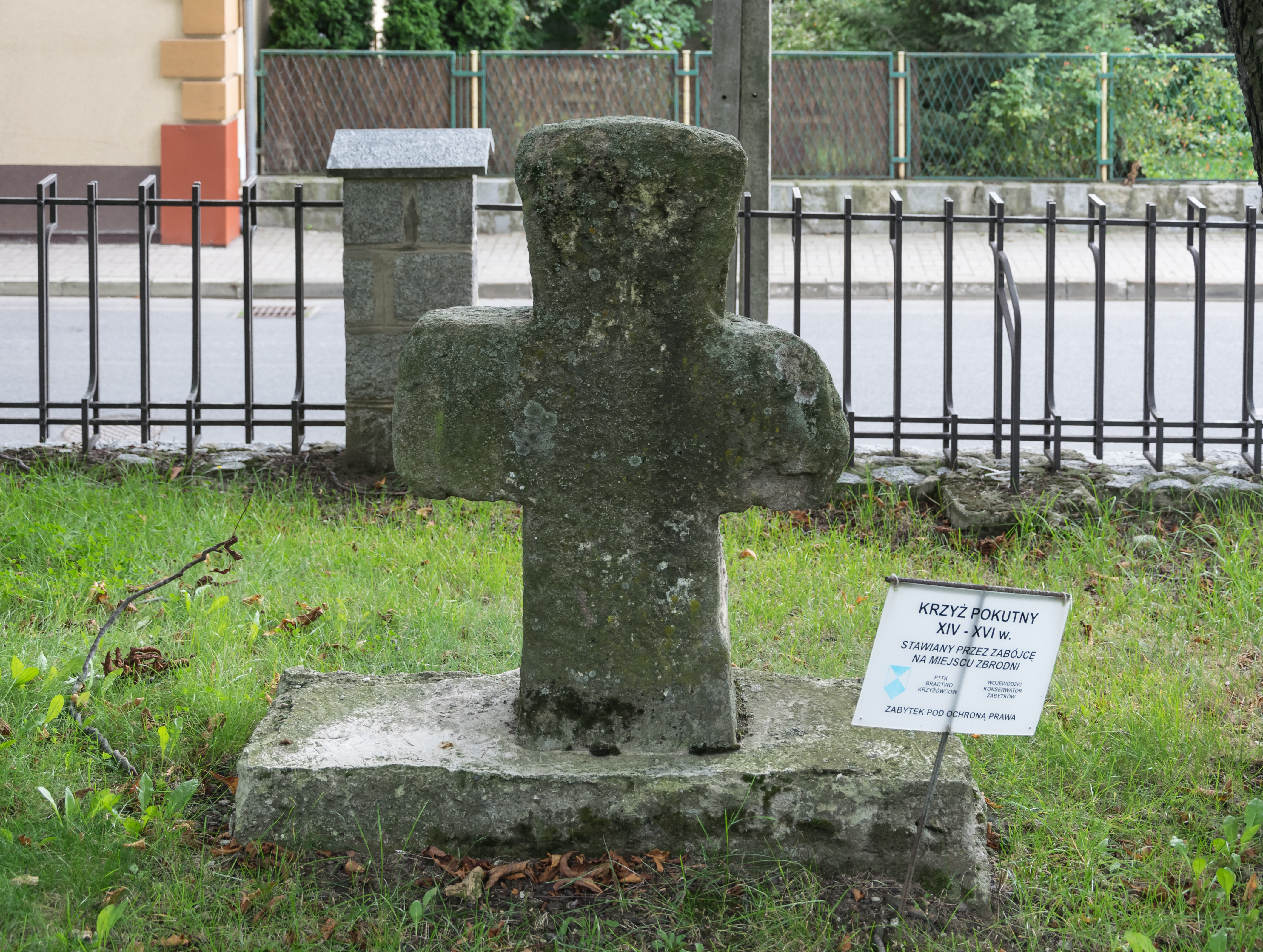 Penitence cross in Piława Górna